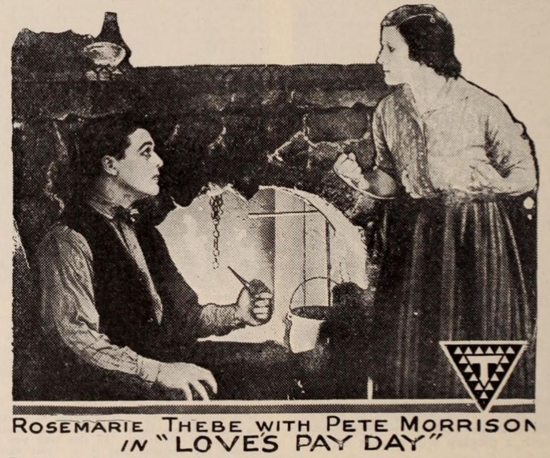 Love's Pay Day, by E. Mason Hopper, with Rosemary Theby